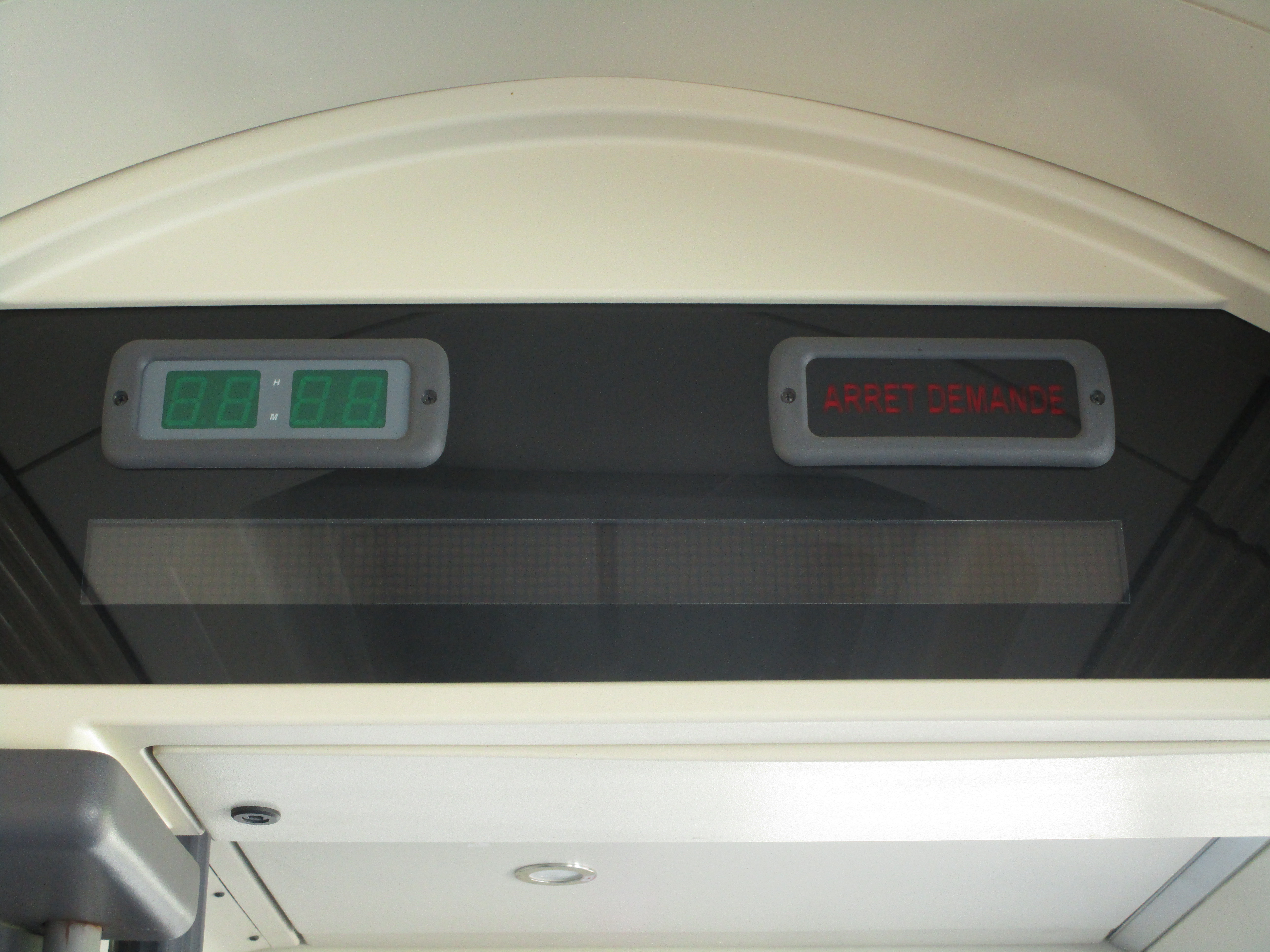 An information system onboard of the Volvo 7000 of Cap’Bus.